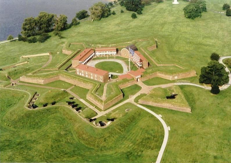 This is an aerial view of Fort McHenry, a pentagonal fort near the harbor in Baltimore, MD.